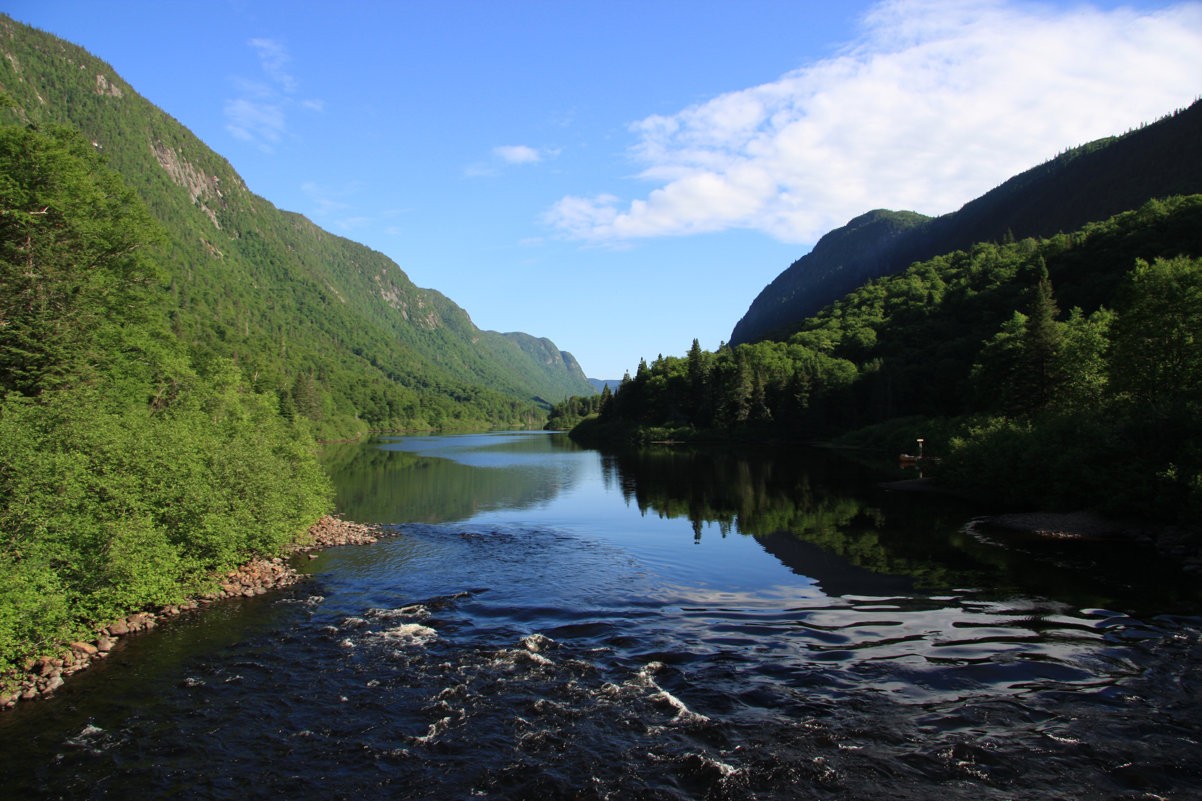 North view of Jacques-Cartier River on the Pont Banc, Jacques-Cartier National Park, Quebec, Canada